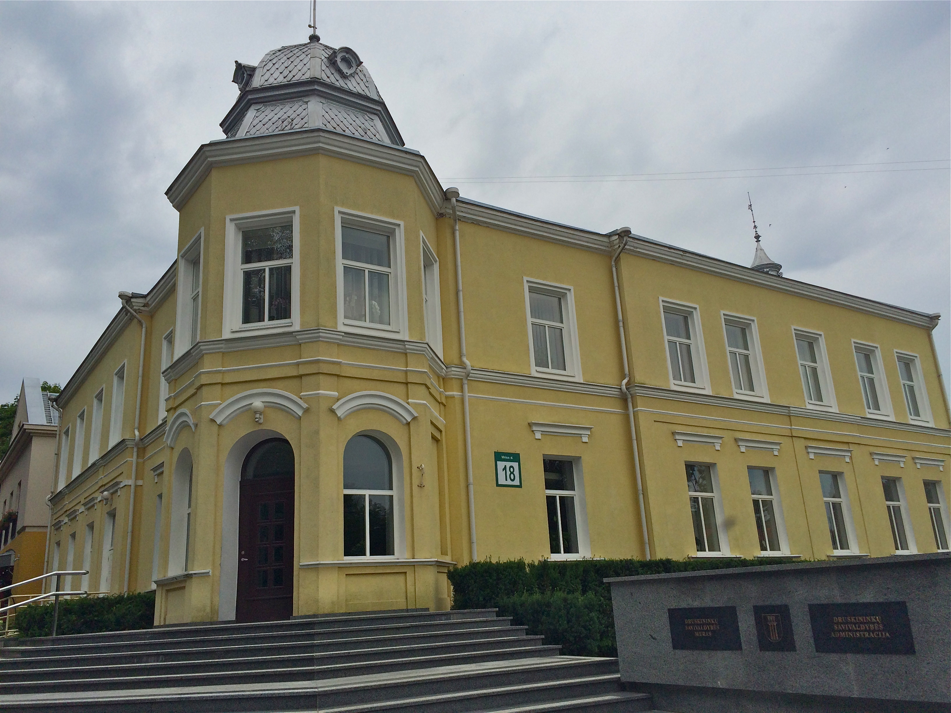 The building of Druskininkai municipality